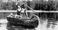 Ojibwe spearfisher